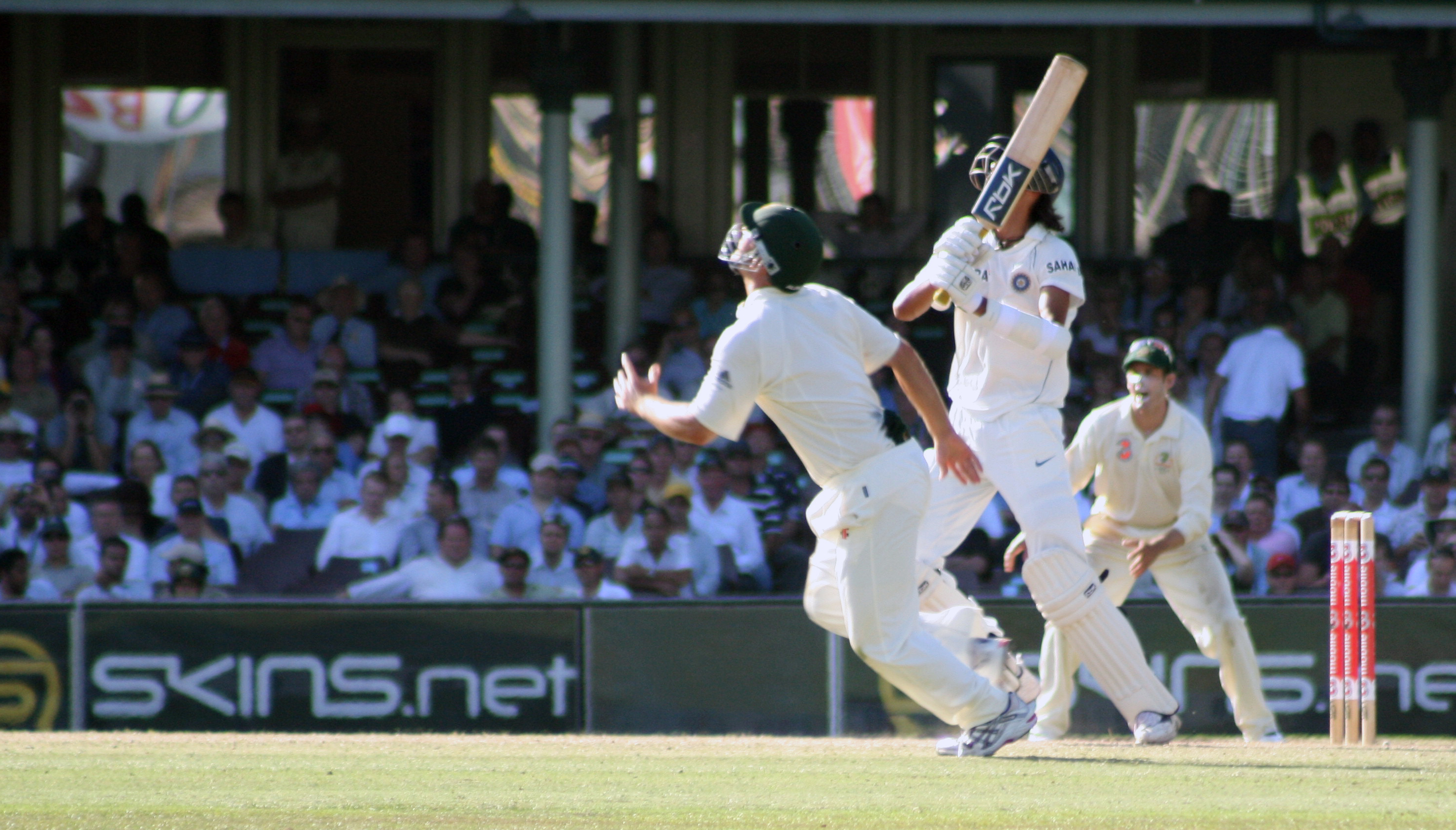 Taken at SCG, 3rd Day, Australia vs India, 4th Jan 2008